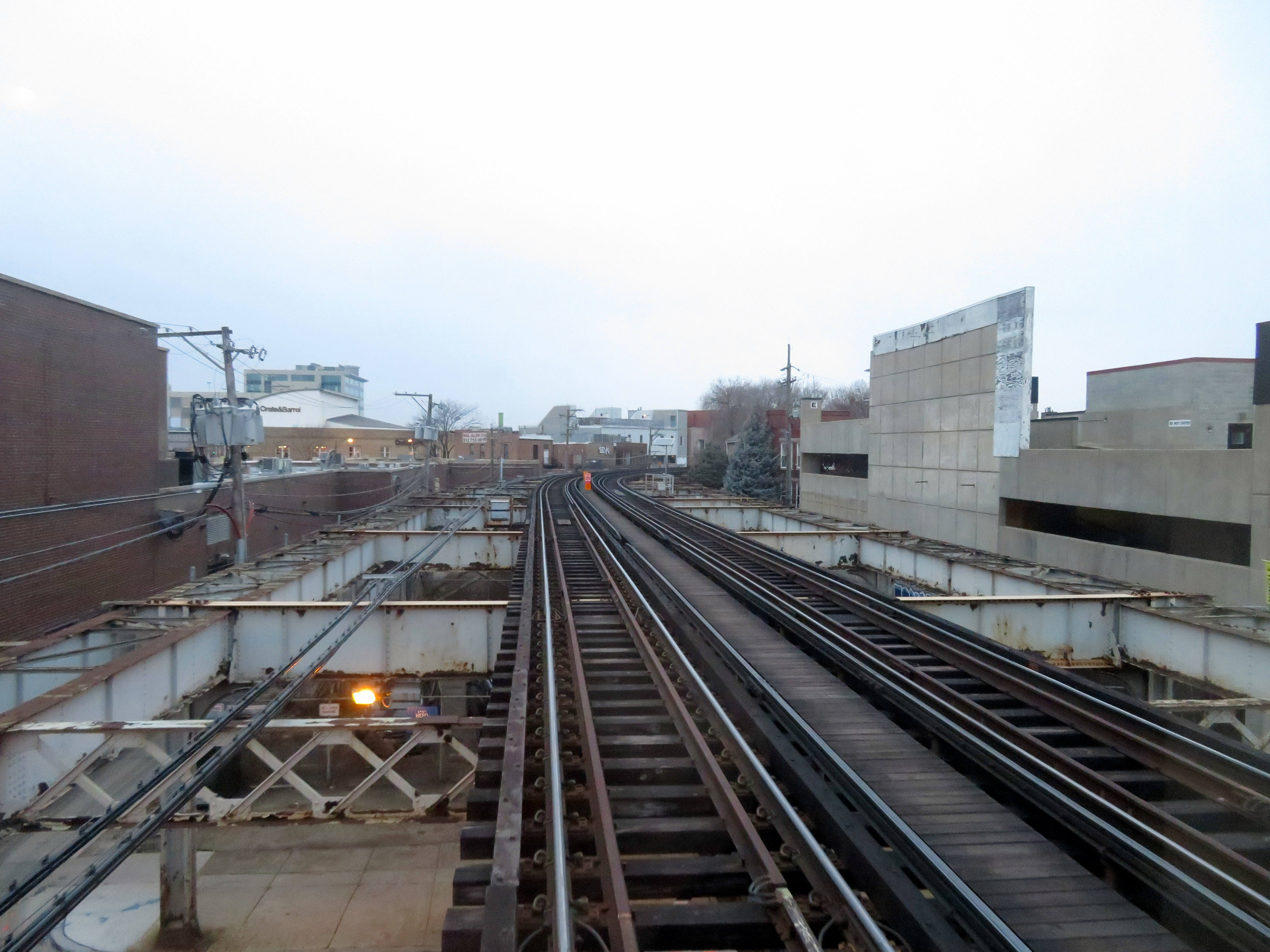 The former location of Halsted station seen from the rear of a Loop-bound Brown Line train in December 2018